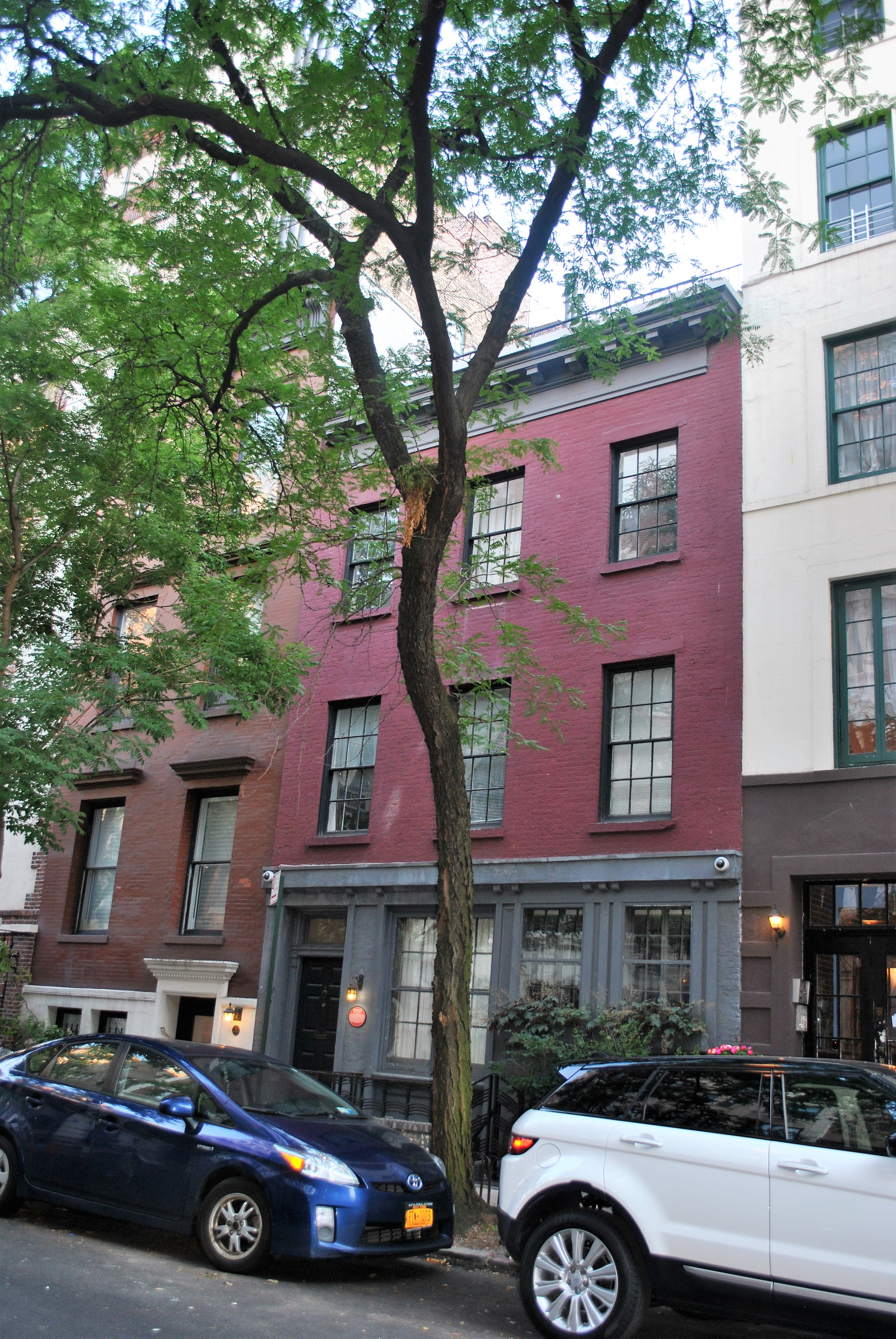 Imagine originally published in Queer Places, Vol. 1.2: Retracing the Steps of LGBTQ people around the World Authored by Elisa Rolle